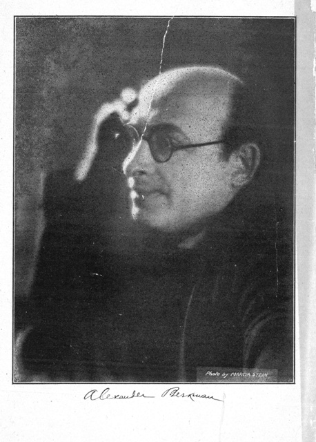 Photograph of anarchist Alexander Berkman, by Marcia Mishkin Stein. Frontispiece of second edition of his book, Prison Memoirs of an Anarchist, by Alexander Berkman, Mother Earth Publishing Association, New York, 1920.